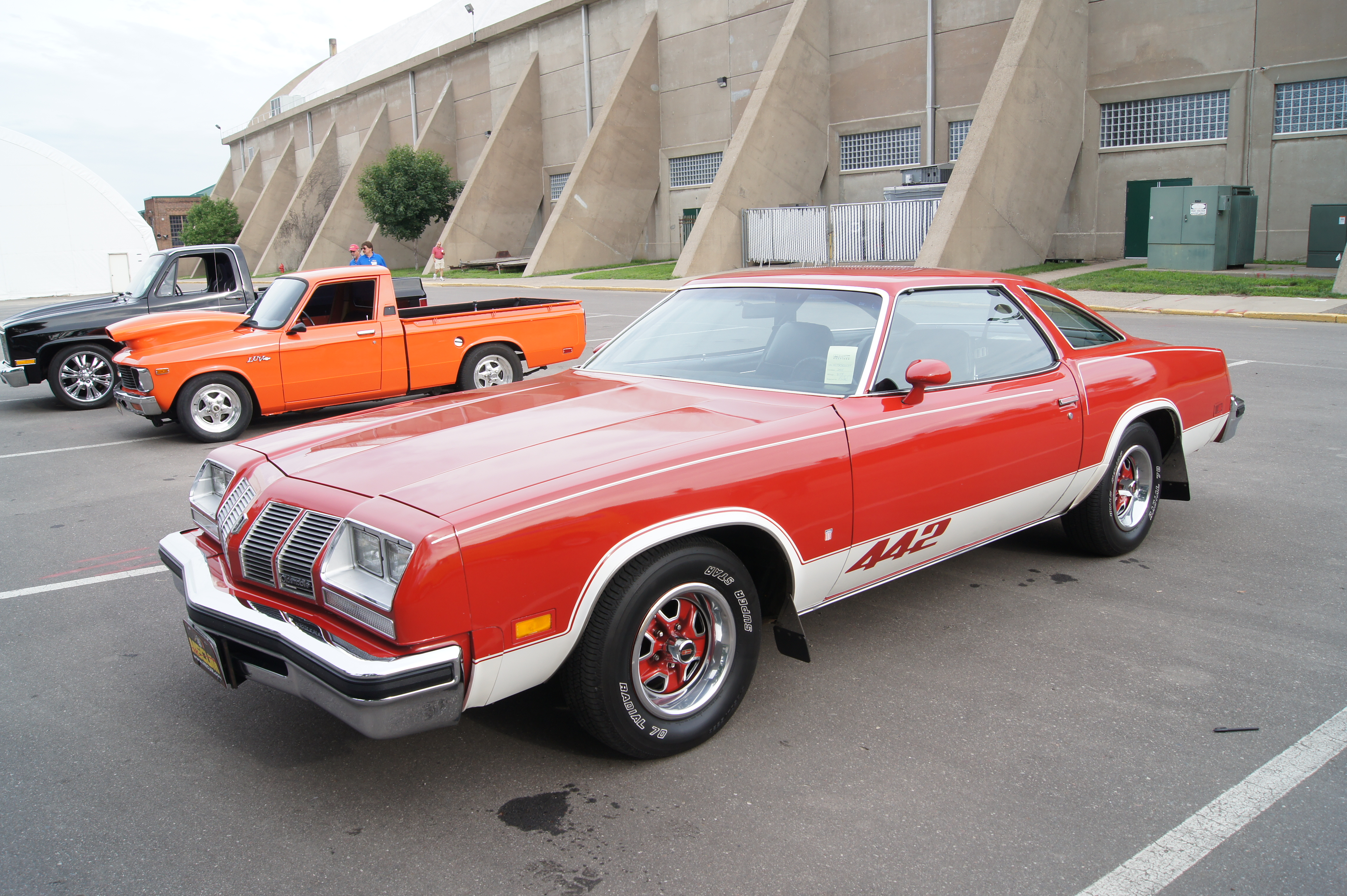 Minnesota Street Rod Association "Back to the Fifties" June 2012 Minnesota State Fairgrounds St. Paul MN